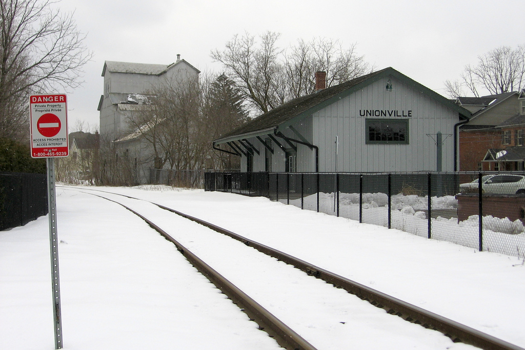 The old station was last used on Friday May 3, 1991. The new GO Station opened for business the following Monday, May 6. Prior to GO Transit using the original station between 1982 and 1991, VIA used the station for their Stouffville to Toronto commuter service.